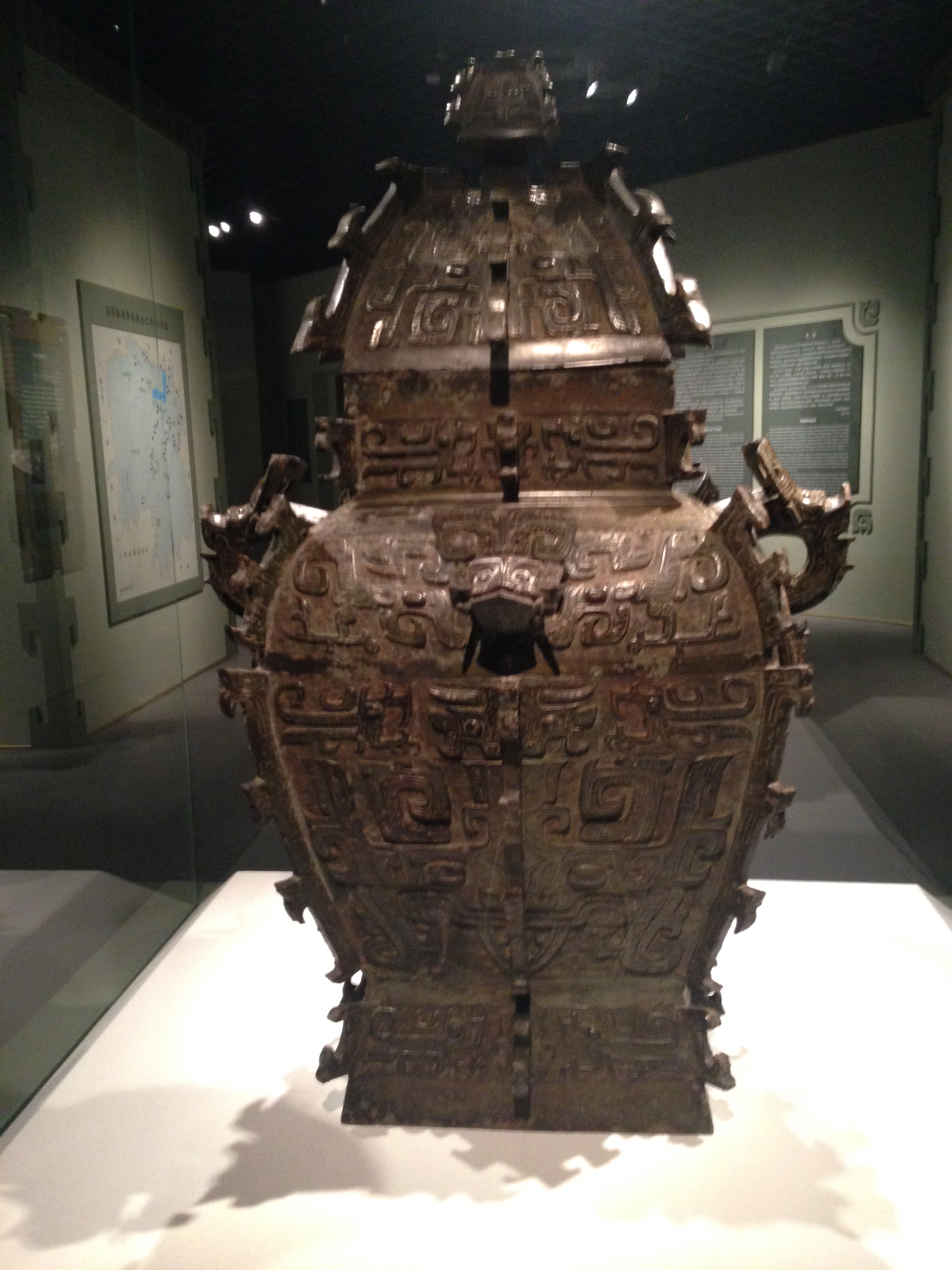 Min Fanglei (bronze square wine vessel), made in Late Shang to Early Zhou Period (ca. 11th century B.C.), collection of Hunan Museum. Photo taken at the special exhibition of Min Fanglei and other bronzes unearthed in Hunan in Shanghai Museum.